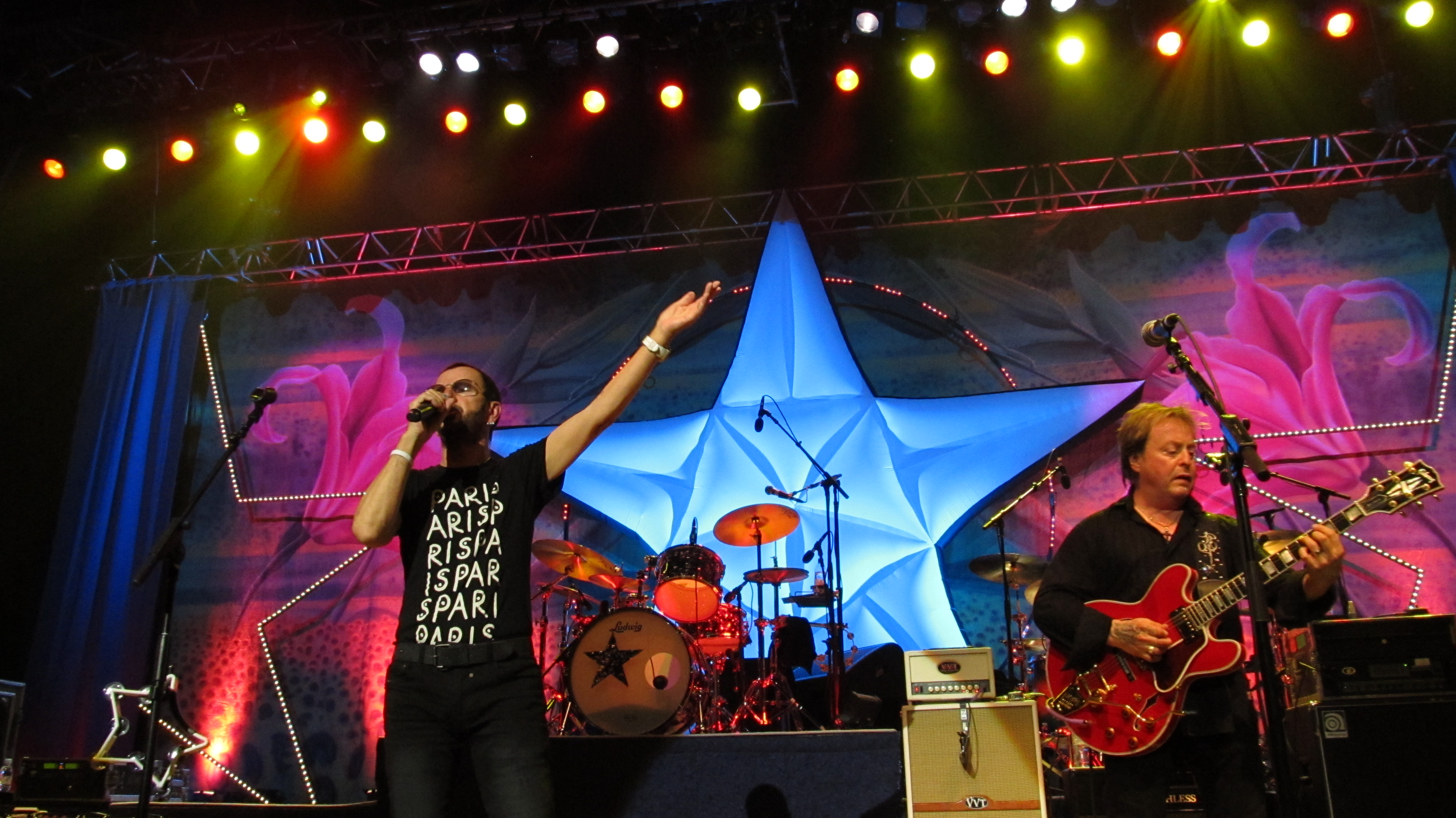 Ringo Starr concert in Paris June 26, 2011 : Ringo Starr and his All-Starr Band